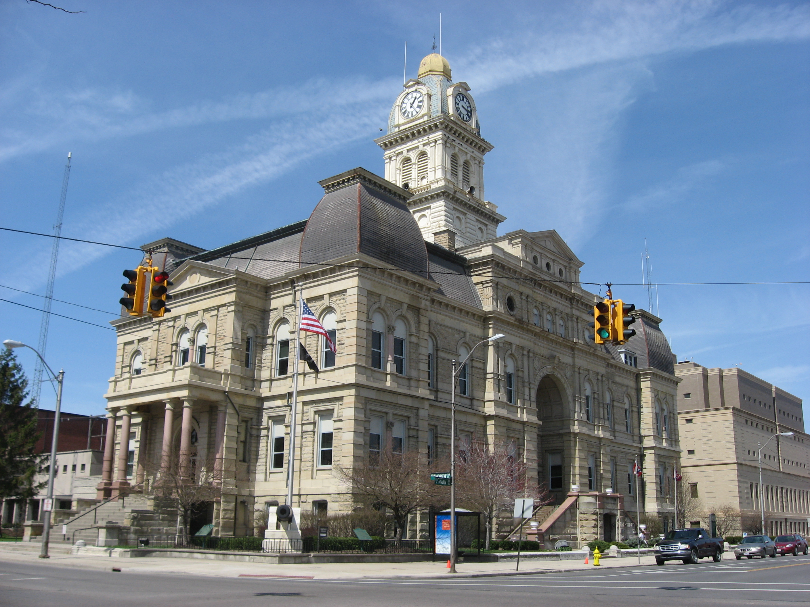 Southern and eastern sides of the Allen County Courthouse, located on Courthouse Square in downtown Lima, Ohio, United States. Built in 1881, it is listed on the National Register of Historic Places.